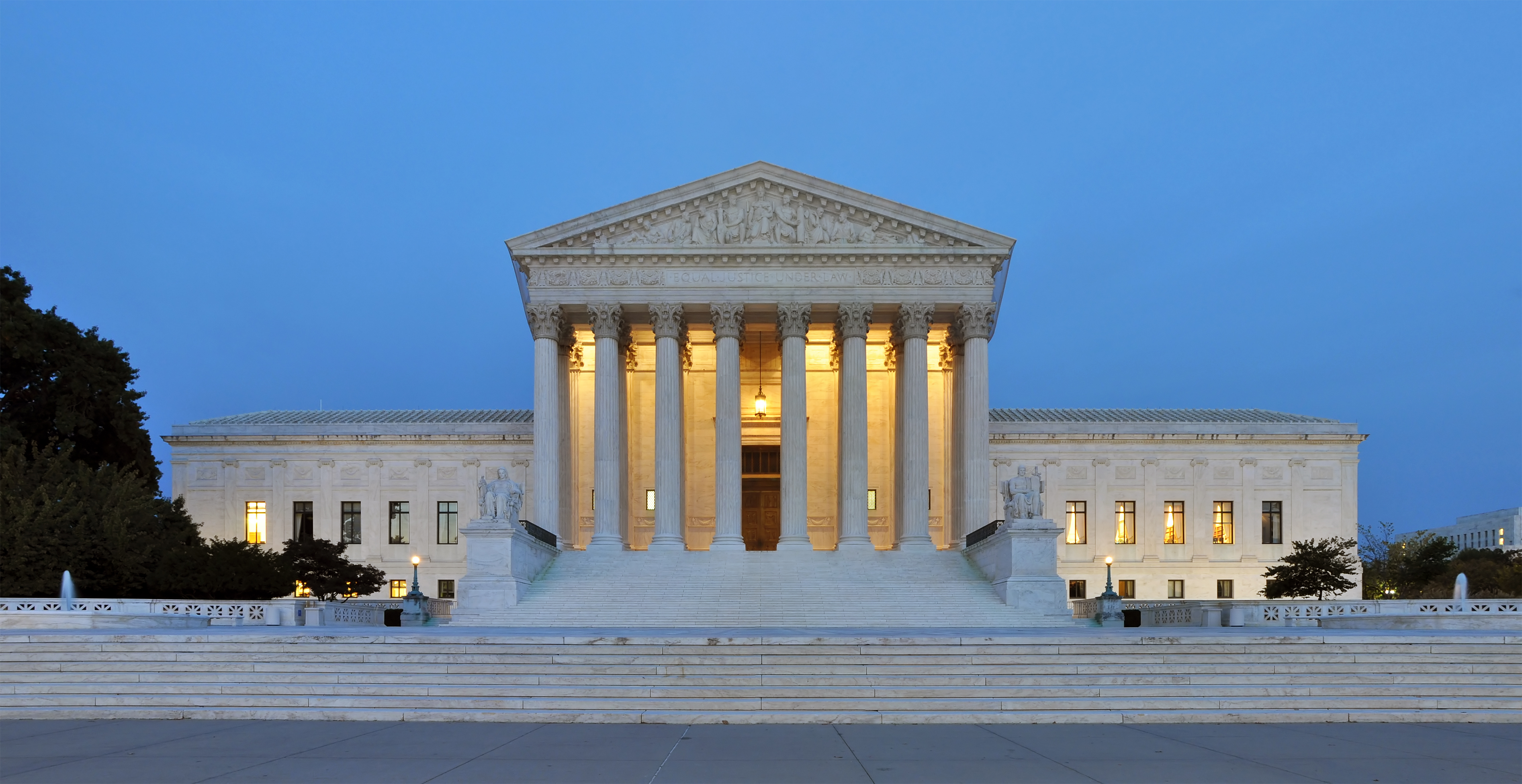 Panorama of the west facade of United States Supreme Court Building at dusk in Washington, D.C., USA.